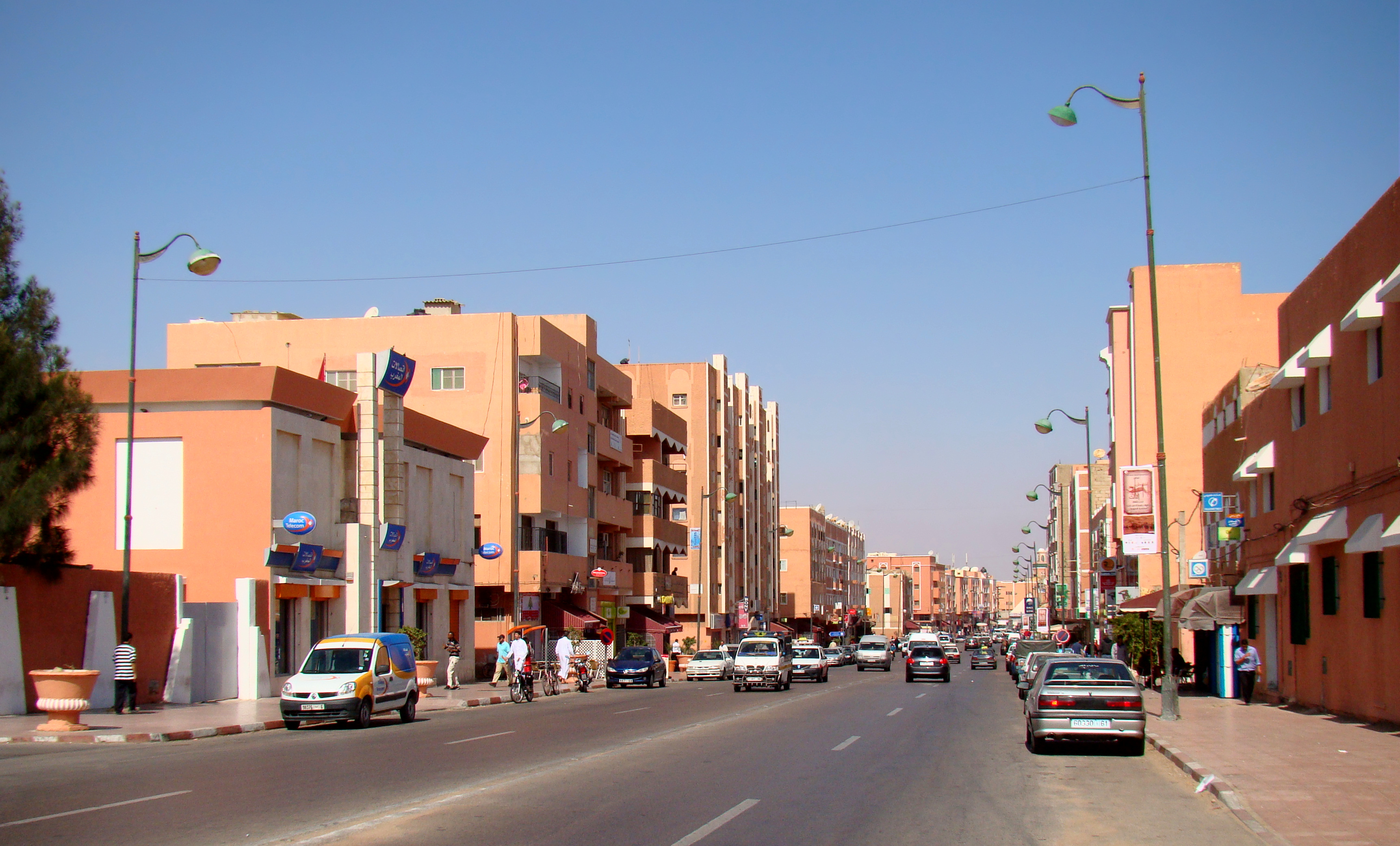 A photo taken from east towards the west of the Avenue Makkah al-Mukarramah, the main street running through El Aaiún—Laayoune in Western Sahara/República Árabe Saharaui Democrática (RASD).